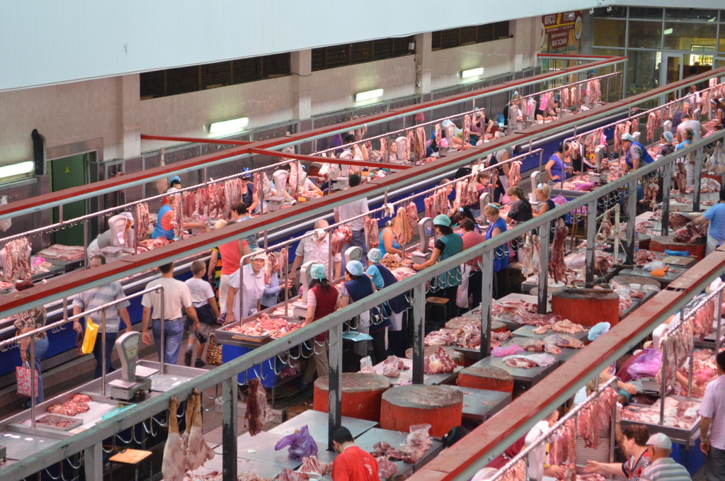 Мясные ряды Центрального рынка Ростова